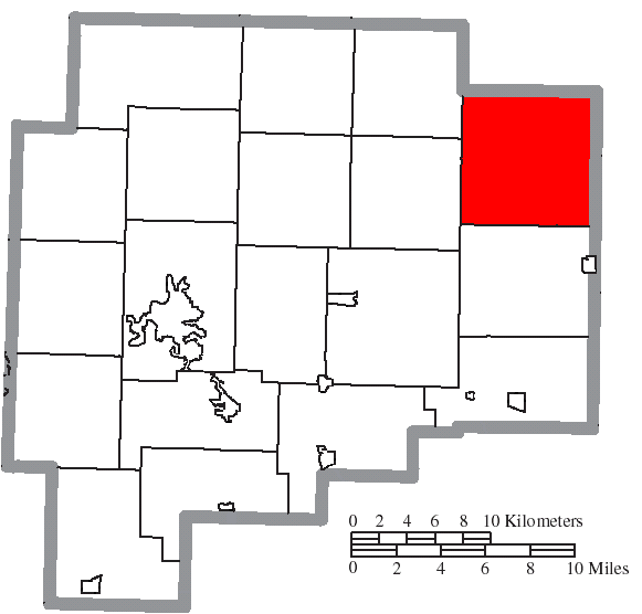 Map of the municipal and township boundaries of Guernsey County, Ohio, United States, as of the 2000 census, with the location of Londonderry Township highlighted. Township borders are shown only in unincorporated areas in order to differentiate incorporated and unincorporated areas more clearly.